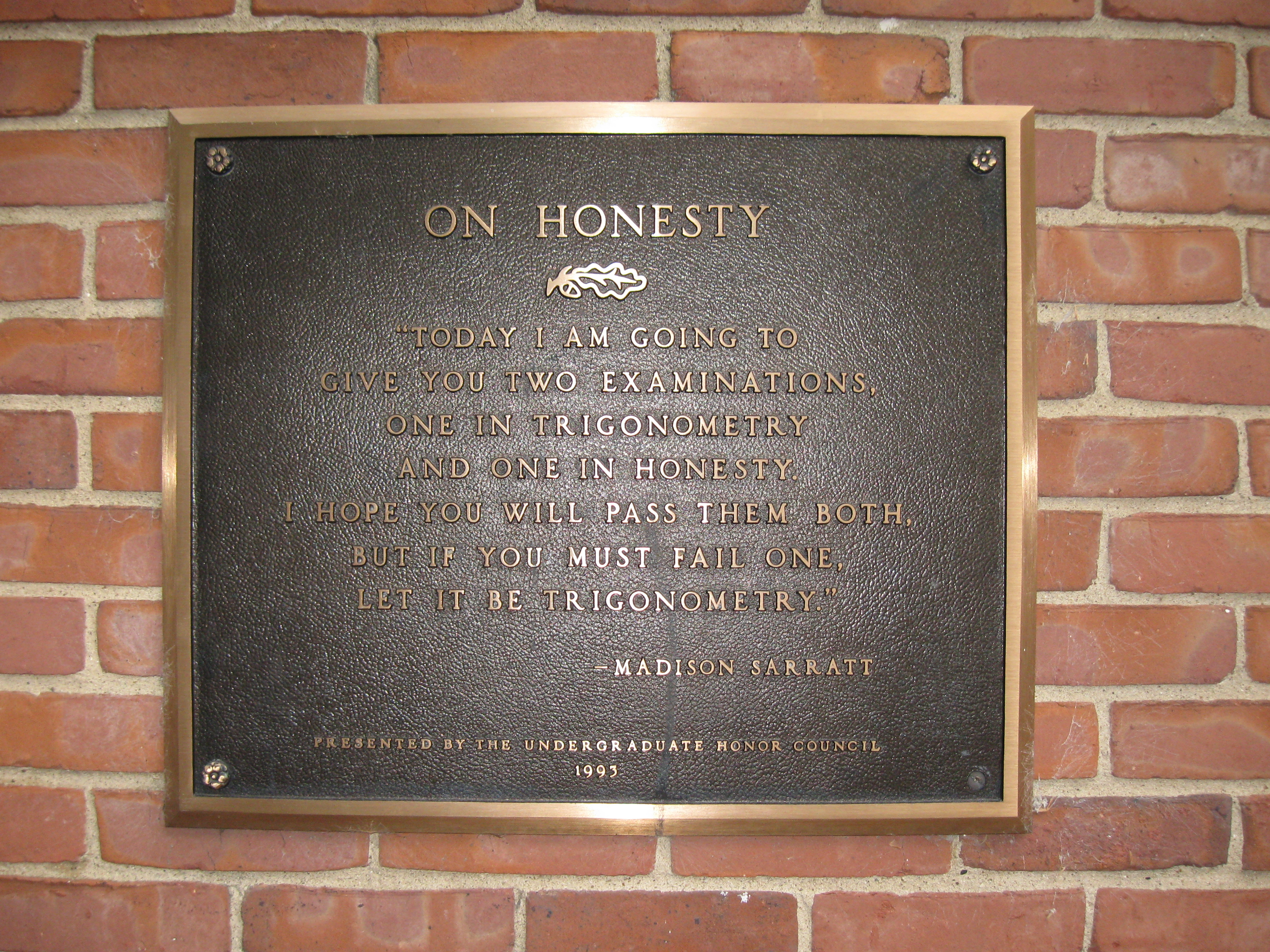 The principles of the honor code were outlined in a famous quote by long-time Dean of Students Madison Sarratt: a plaque engraved with this quote hangs outside the student center in his name.